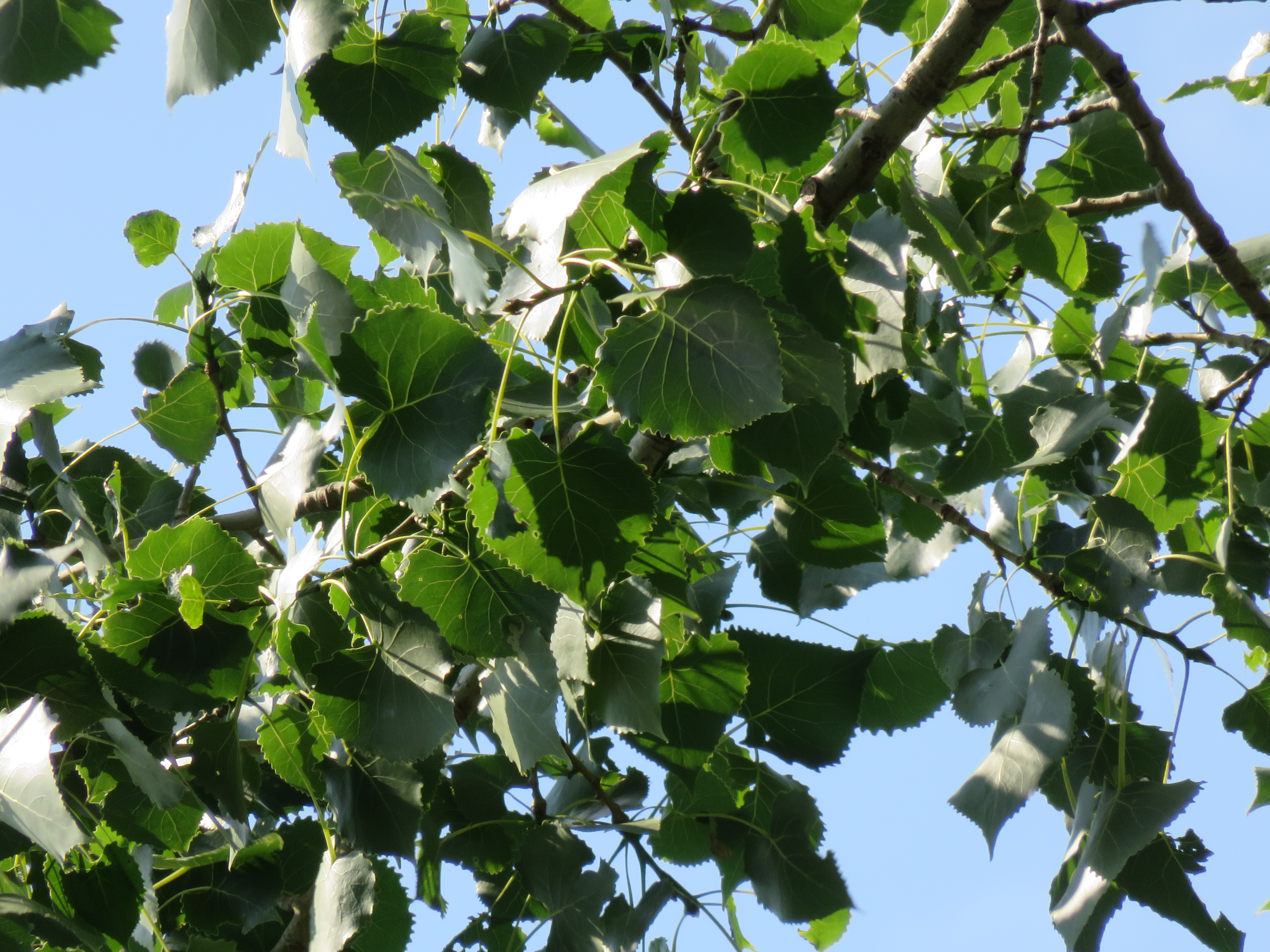 Foliage of an Eastern Cottonwood ( Populus detoides) in Belmont Park, Montréal, Québec, Canada. The leaves are alternate, of triangular form, with a tall petiole, rounded teeth, the tip remaining toothless.